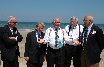 Amo Houghton stands on Utah Beach with other congressional World War II veterans and the Speaker of the House 6/6/04 Amo stands on Utah Beach with other congressional World War II veterans and the Speaker of the House on the 60th Anniversary of the D-Day invasion of Normandy, France. From left to right: Amo, Rep. Ralph Regula (R-Ohio), Former Rep. Bob Michel (R-Illinois), Speaker Denny Hastert (R-Illinois), Rep. John Dingell (D-Michigan). Photo courtesy of Rep. John Shadegg (R-Arizona).